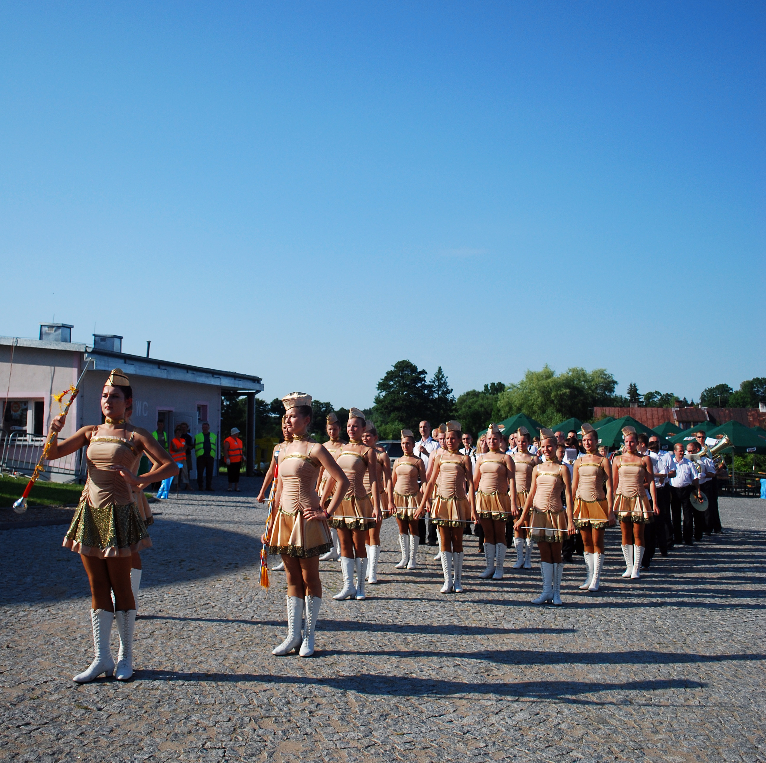 This photo from Podlaskie Voievodeship was taken during Polish Wikiexpedition 2009 set up by Wikimedia Polska Association. The making of this document was supported by Wikimedia Polska. Cheerleaderki z Sejn. (zd 2)